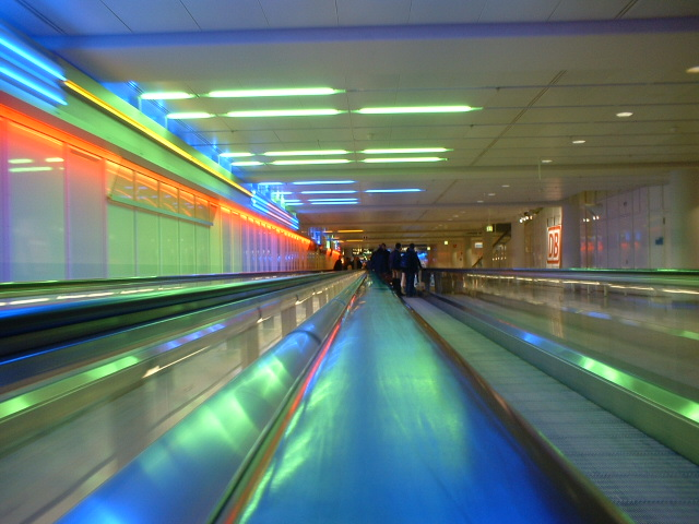 Munich International Airport.